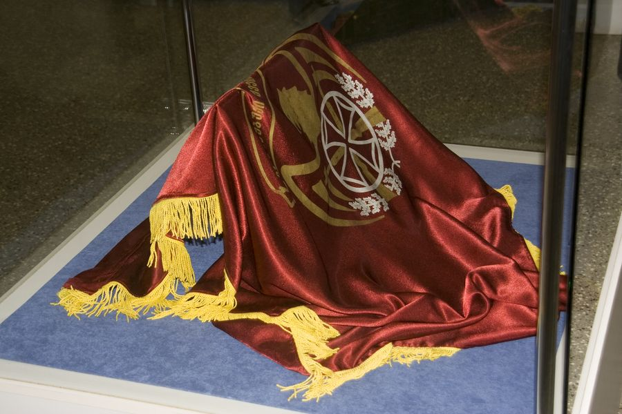 Georgian Banner captured by Russian forces in 2008 South Ossetia War ("Causasus. Five days of the august." exhibition of the Central Armed Forces Museum, Moscow).